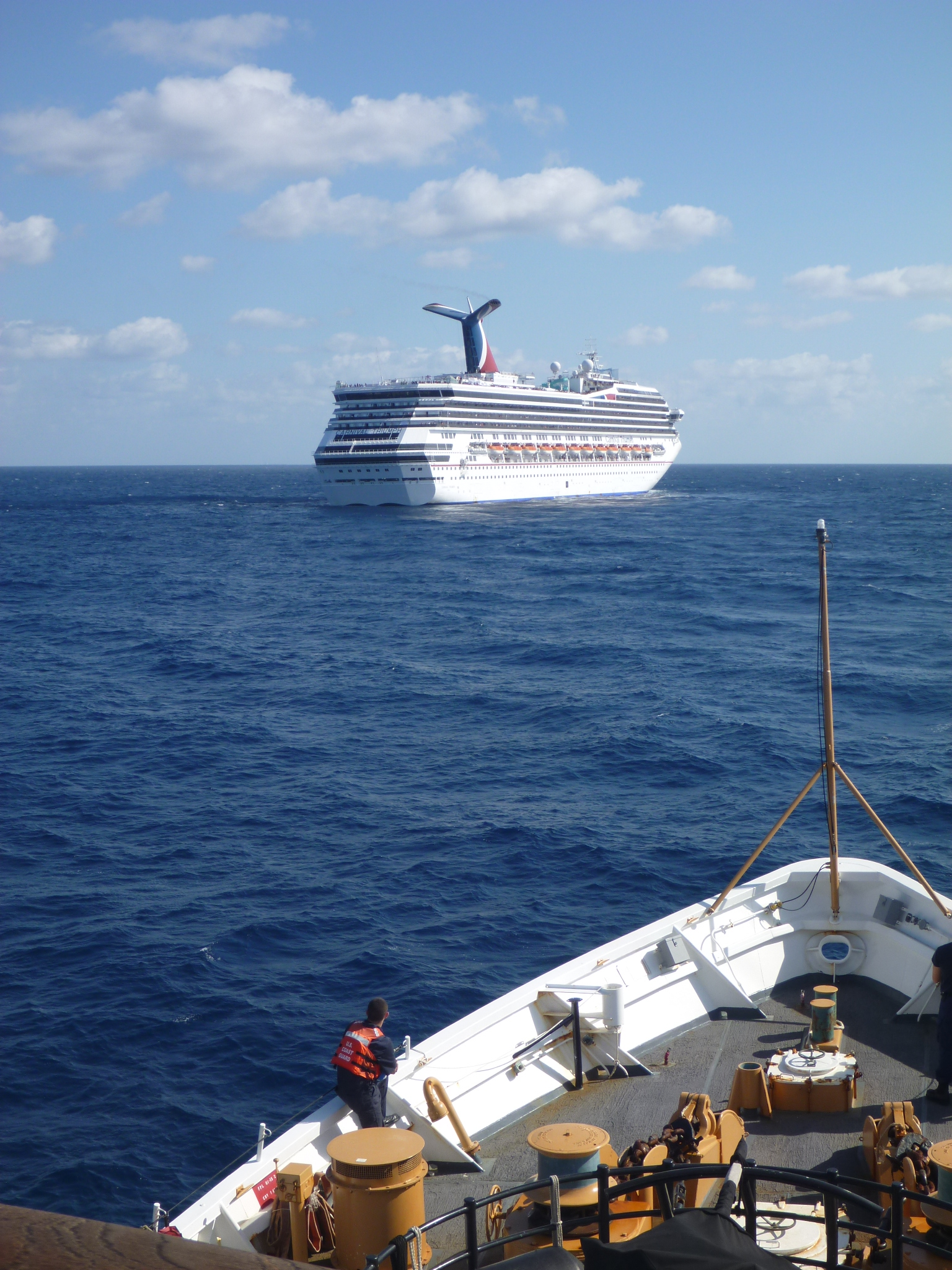 GULF OF MEXICO - The Coast Guard Cutter Vigorous stands by to assist the cruise ship Carnival Triumph in the Gulf of Mexico, Feb. 11, 2013. The Carnival Triumph lost propulsion power after an engine room fire Feb. 10, 2013. U.S. Coast Guard photo by Lt. Cmdr. Paul McConnell.